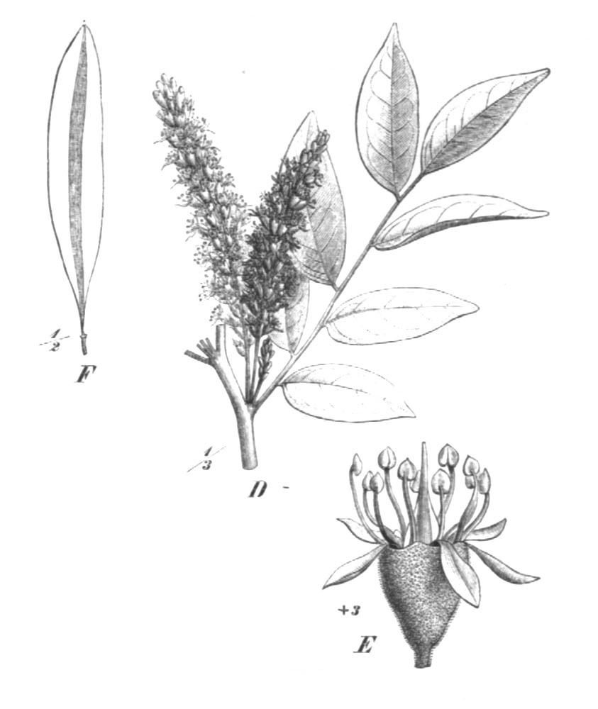 Illustration from book